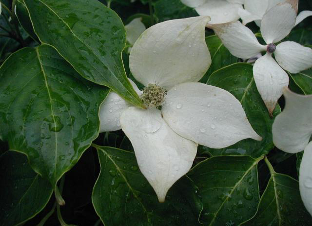 Cornus kousa: Flower and foliage